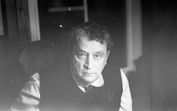 Norman Rosenthal at his home in London, 2012.